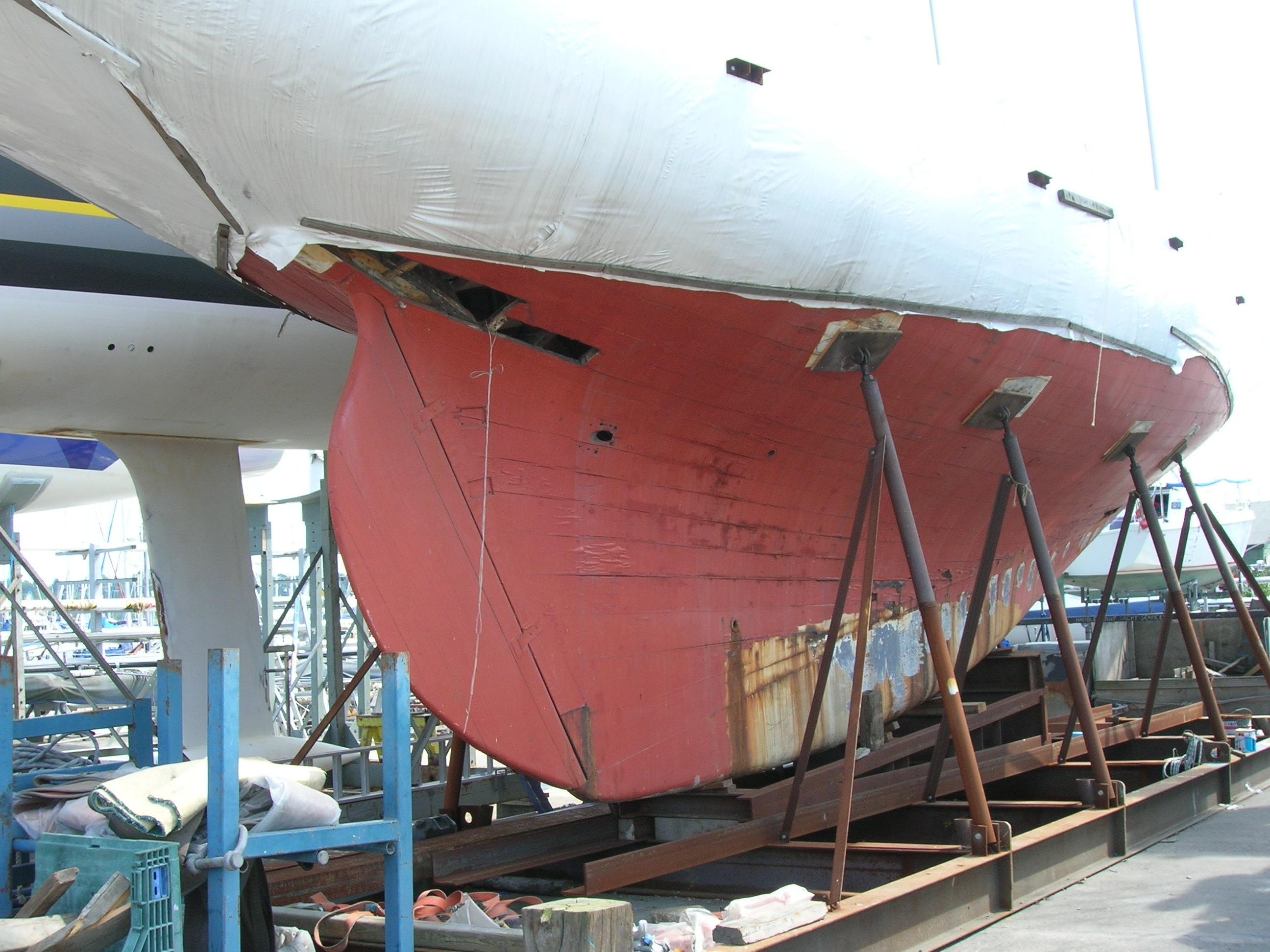 The wooden hull of a sailboat being repaired in Hamble marina.